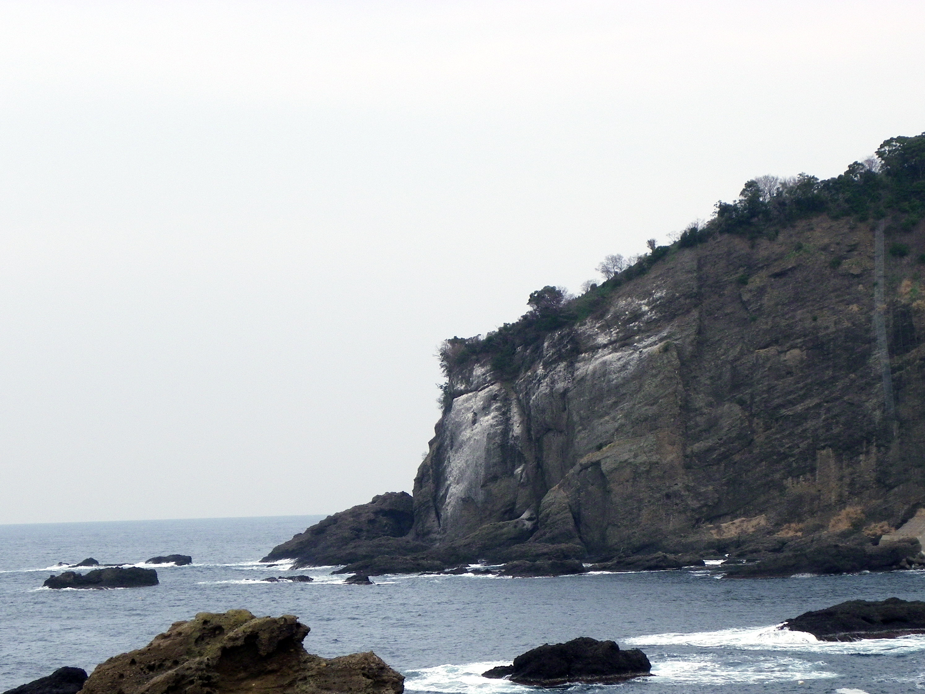 torikusoiwa(Bird-excrement-rock)